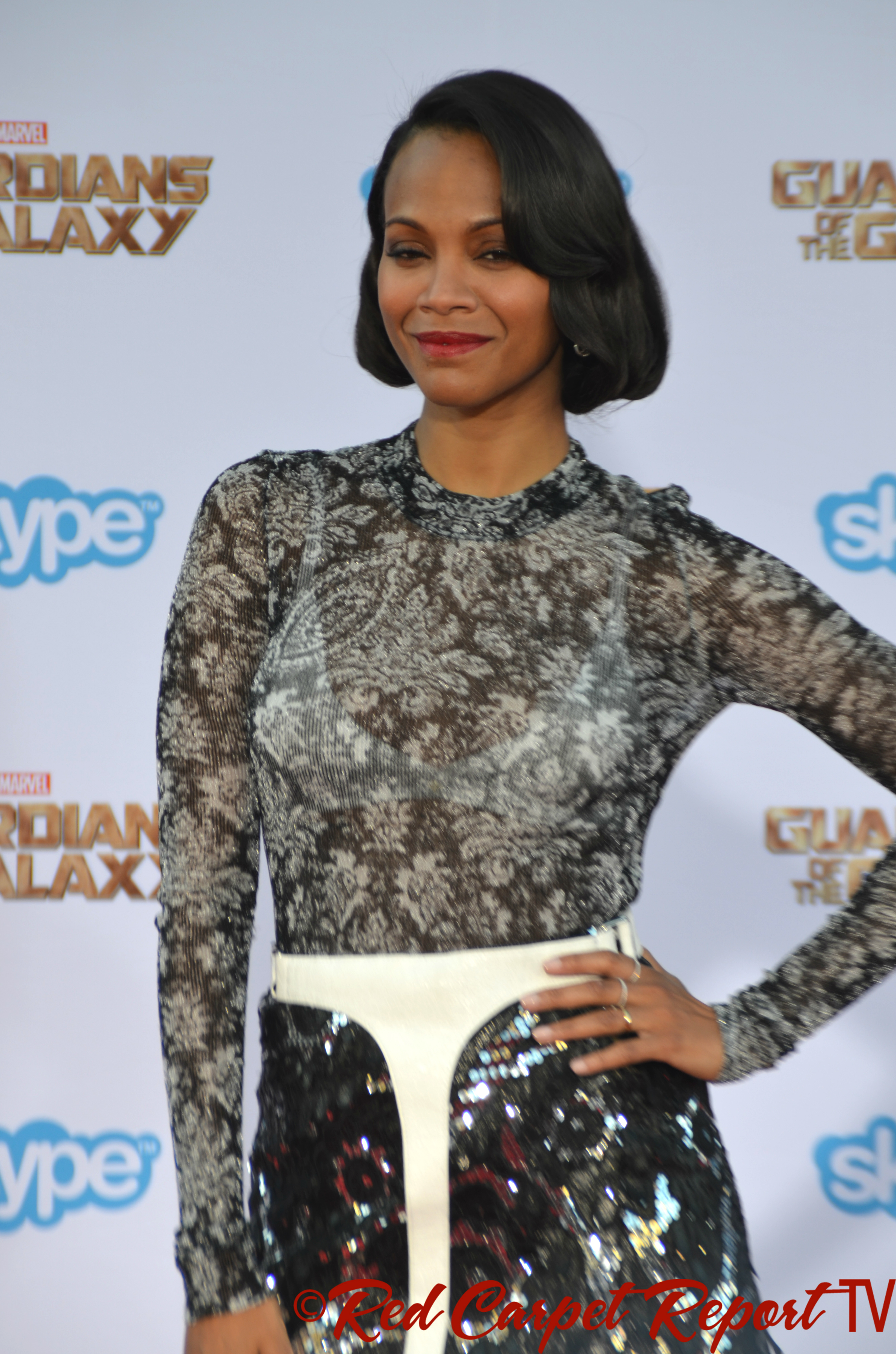 Actress Zoe Saldana at the Guardians of the Galaxy premiere in July 2014